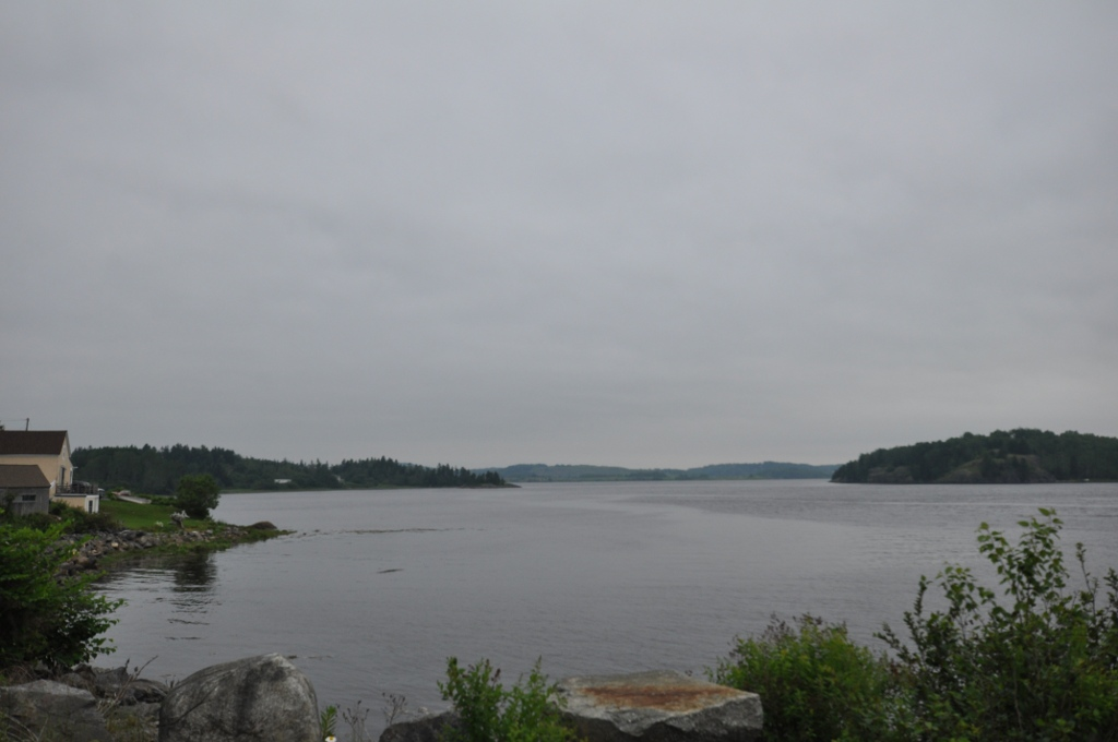 "The Rim" and Site of Fort Foster, East Machas, Maine. View northward from Machiasport; "The Rim" is the land visible in the background between the two points on either side of the Machias River.